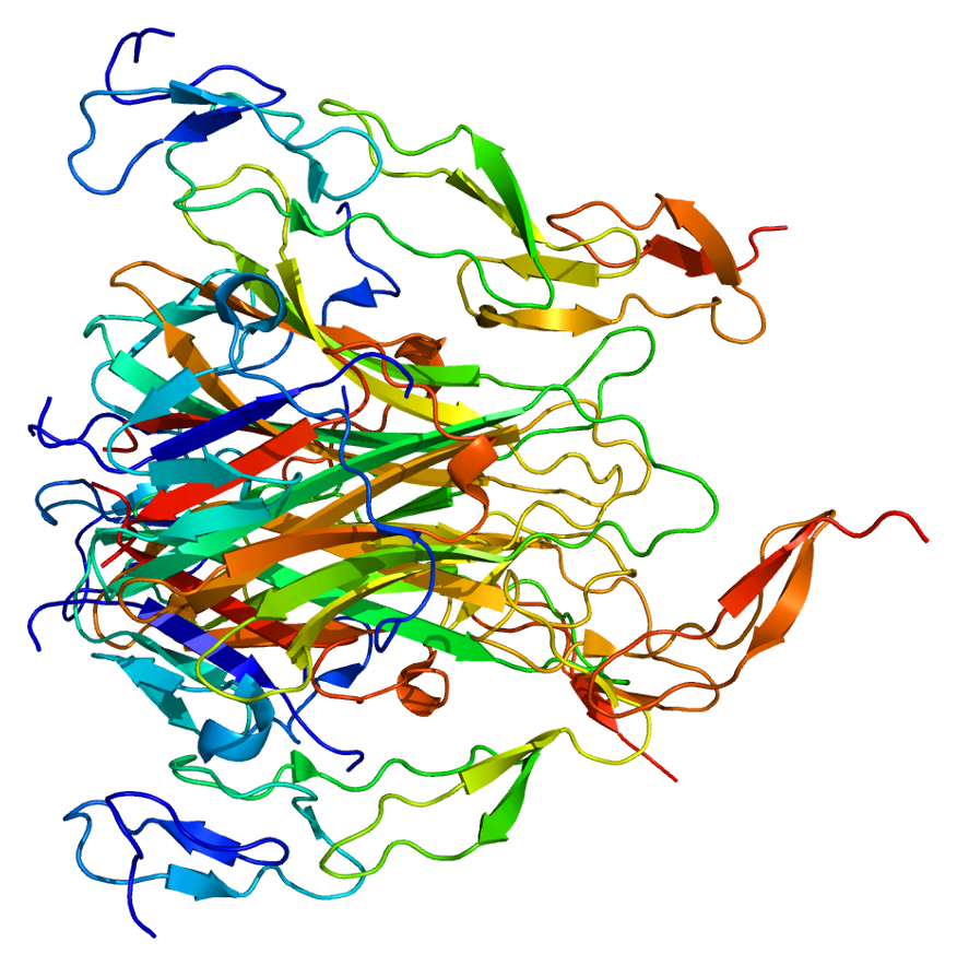 Structure of the TNFSF10 protein. Based on PyMOL rendering of PDB 1d0g.